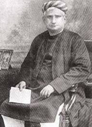 Bankim Chandra Chattopadhyay (1838-1894)